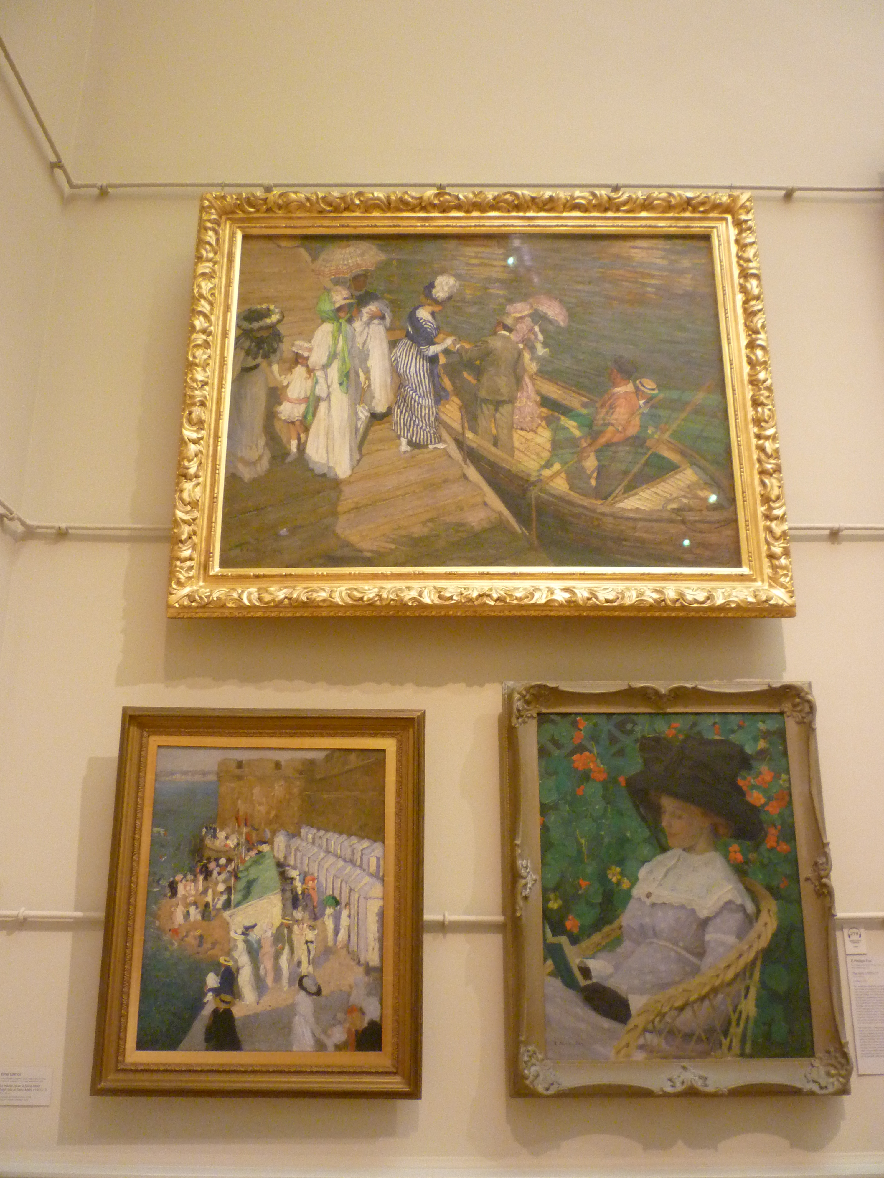 E. Phillips Fox painting "Nasturtiums" hung with another Fox and a Carrick in the Art Gallery of New South Wales